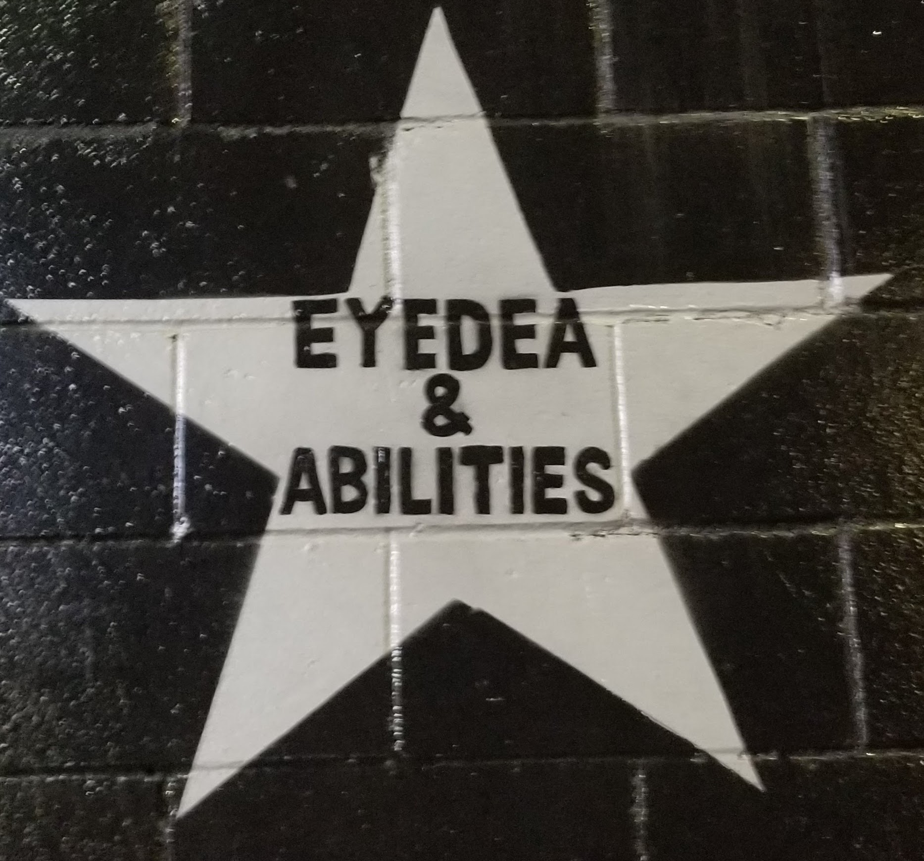 Star representing the musical group Eyedea & Abilities on the outside mural of the Minneapolis nightclub First Avenue